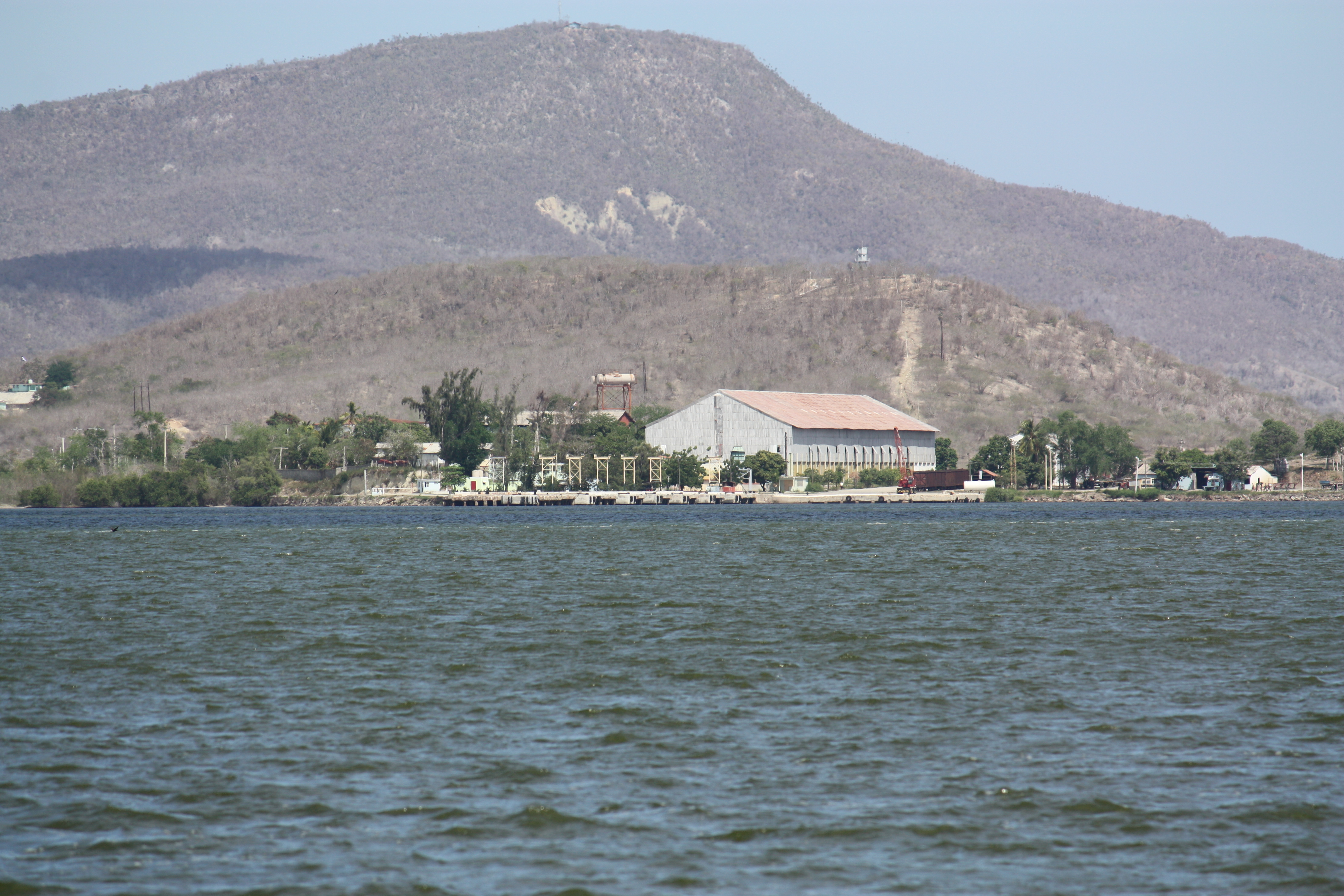 CC BY-SA 2.0